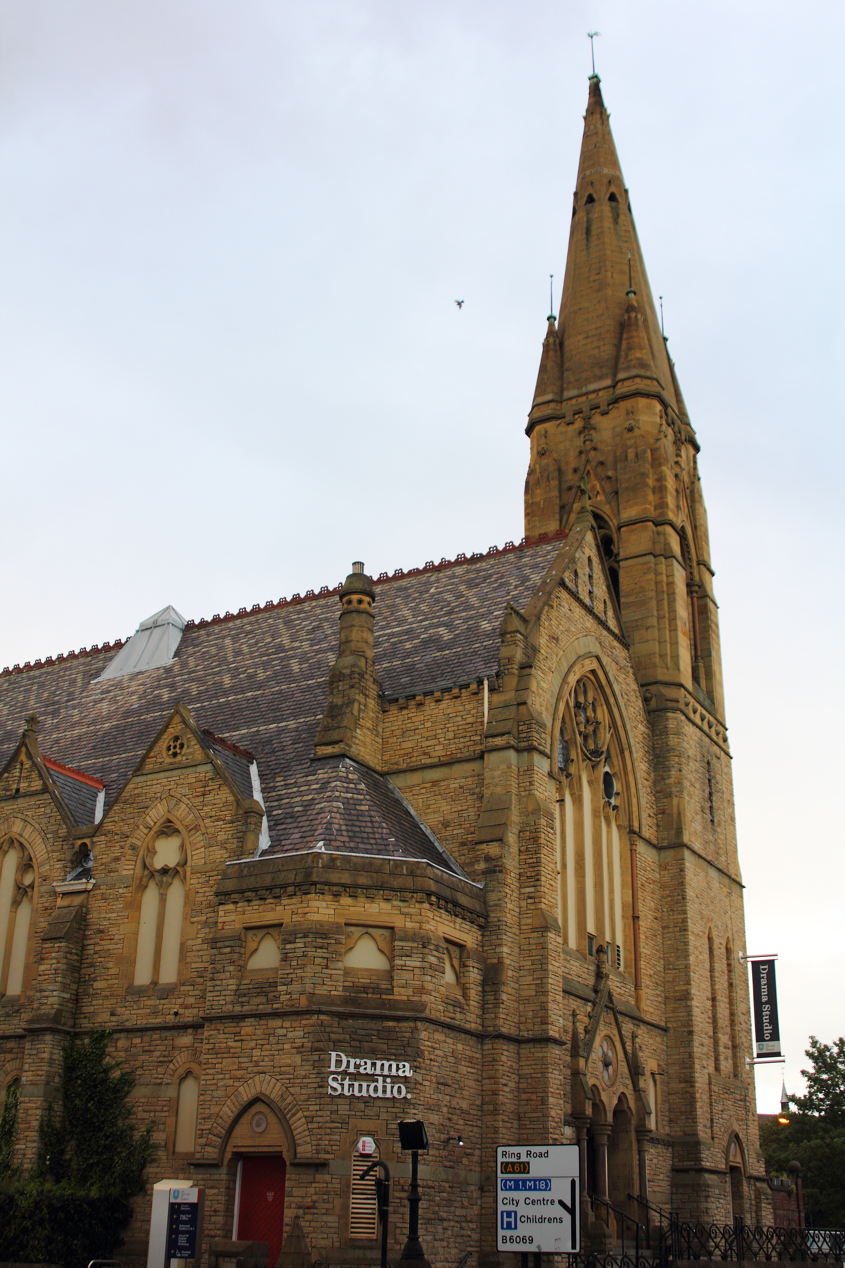 University of Sheffield Drama Studio, Glossop Road, Sheffield, South Yorkshire, seen from the south